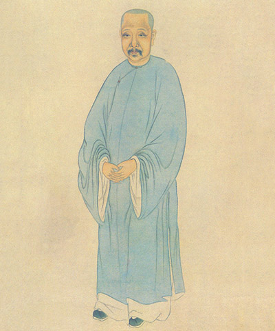 BI Yuan, politician and scholar of the Qing Dynasty.